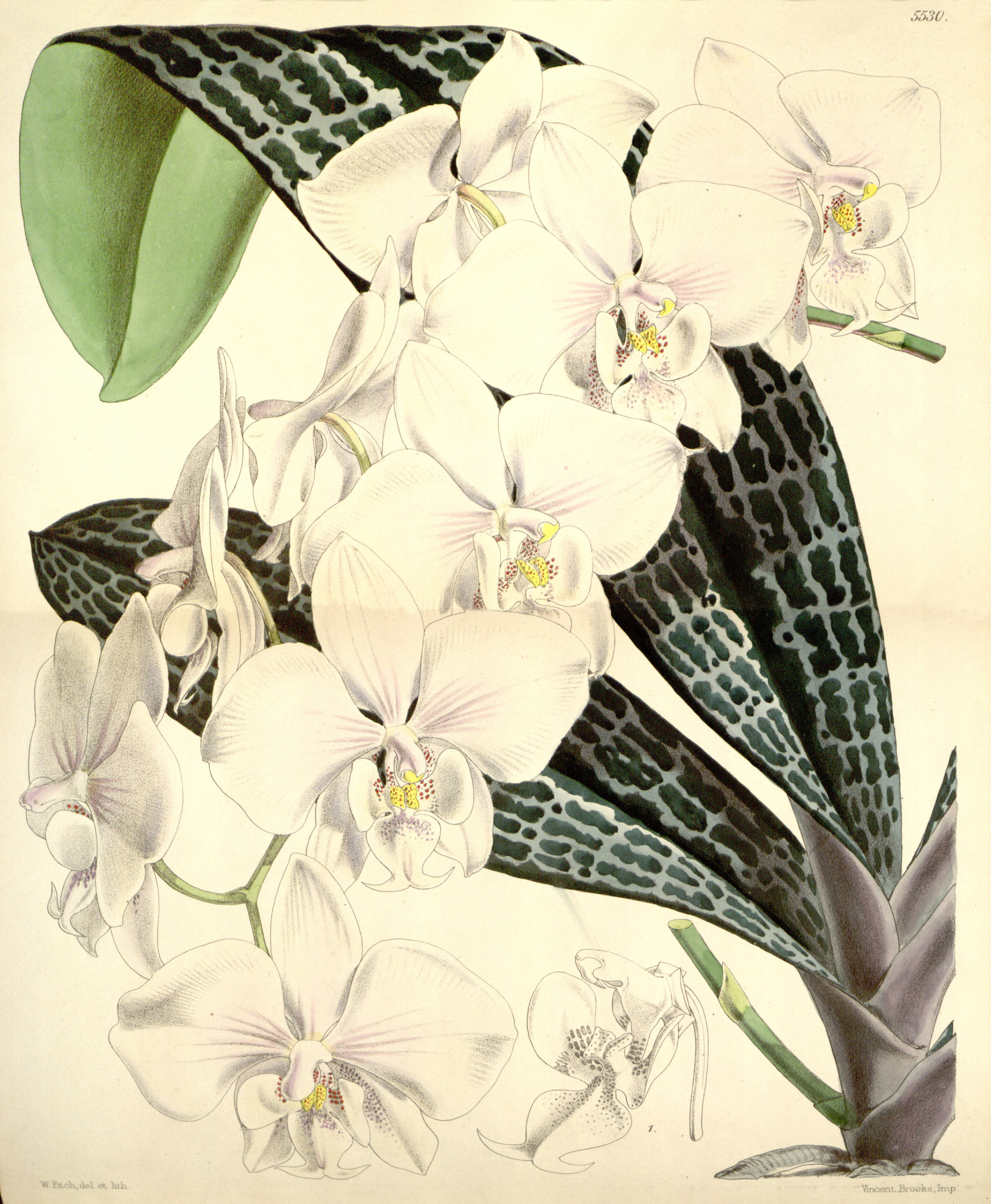 Illustration of Phalaenopsis schilleriana